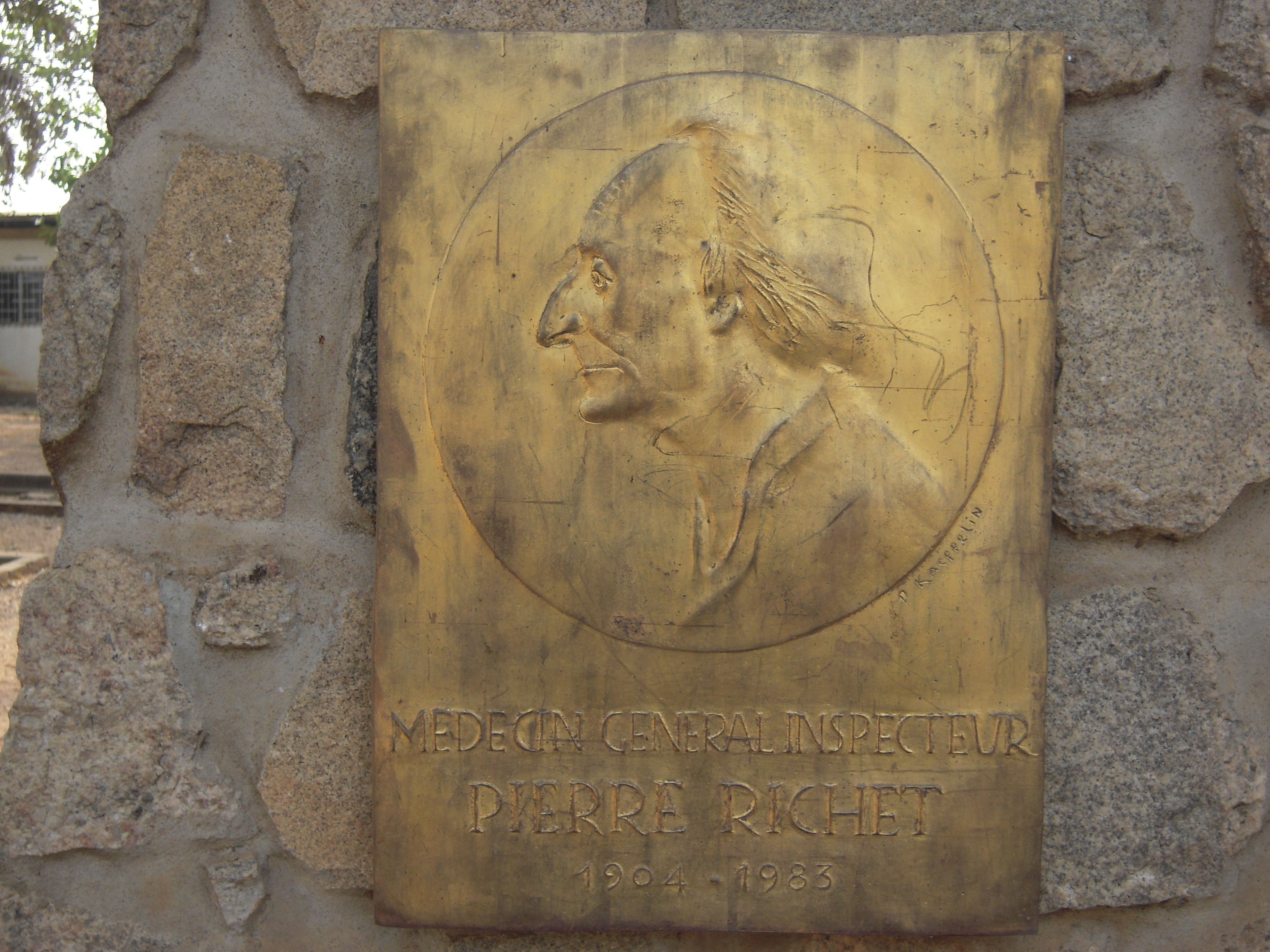 Commemorative plaque in honor of Pierre Richet at the Pierre Richet Institute (Bouaké, Ivory Coast)